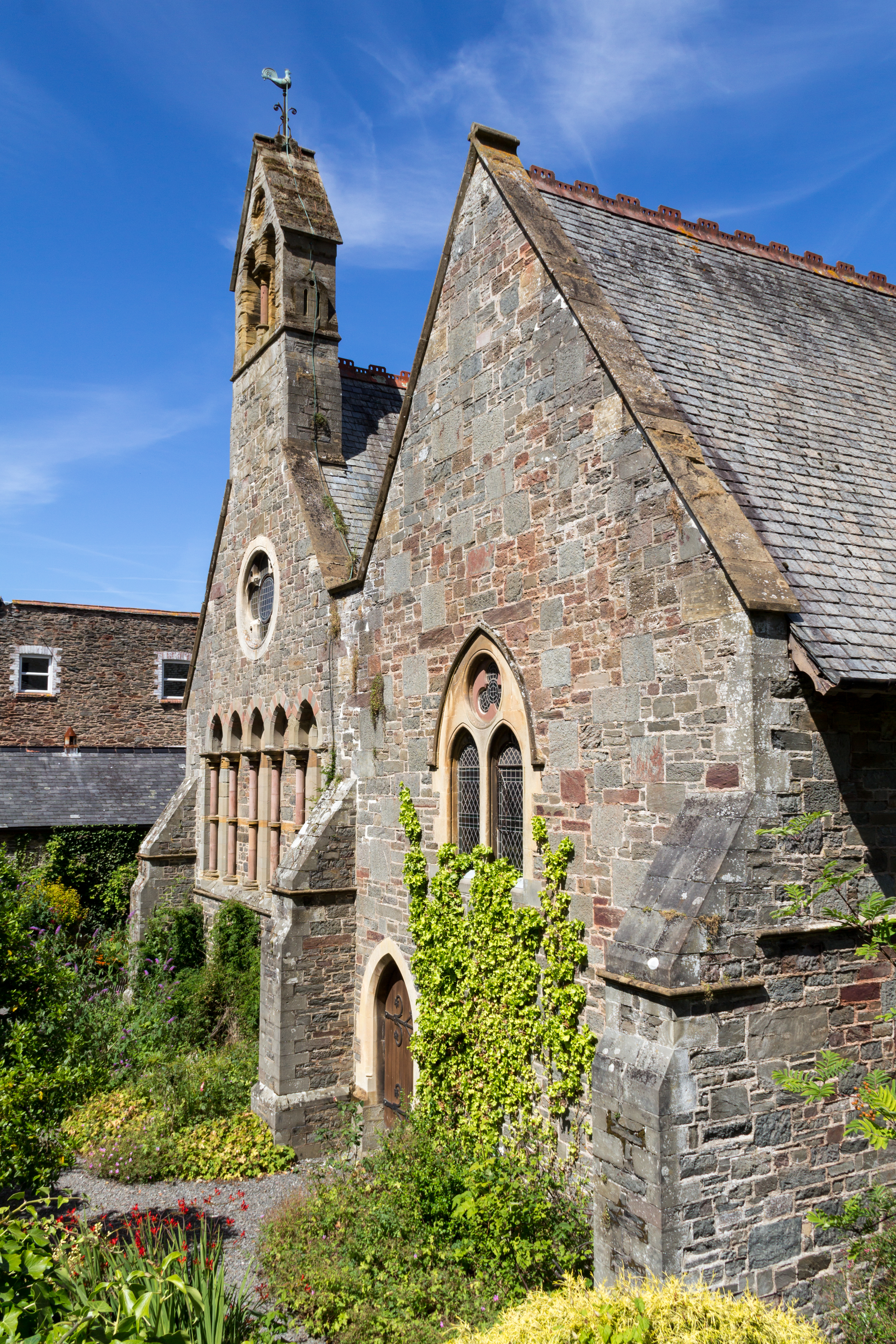 St John the Baptist parish church, Lynmouth, Devon, England, United Kingdom